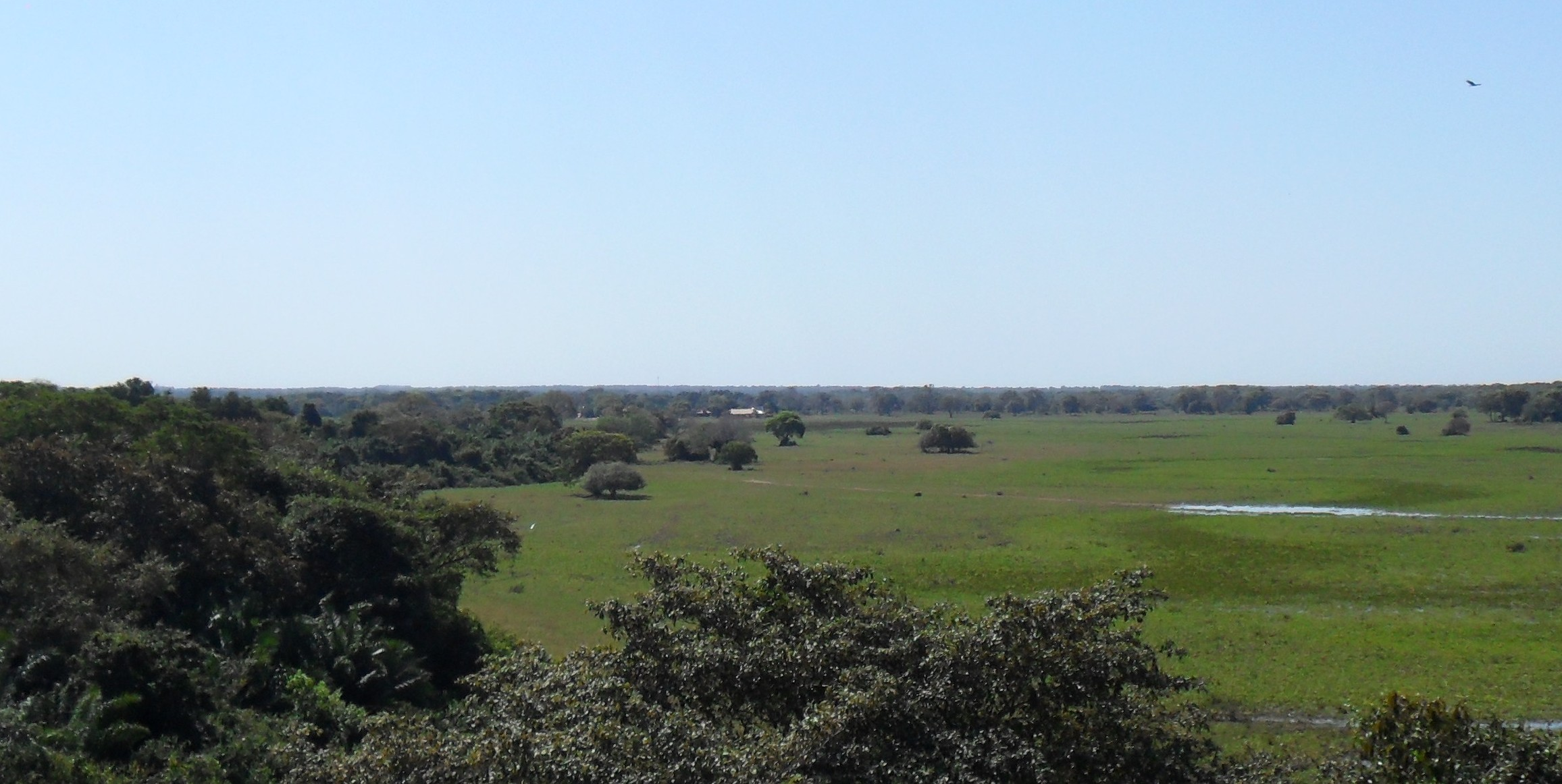 Pantanal